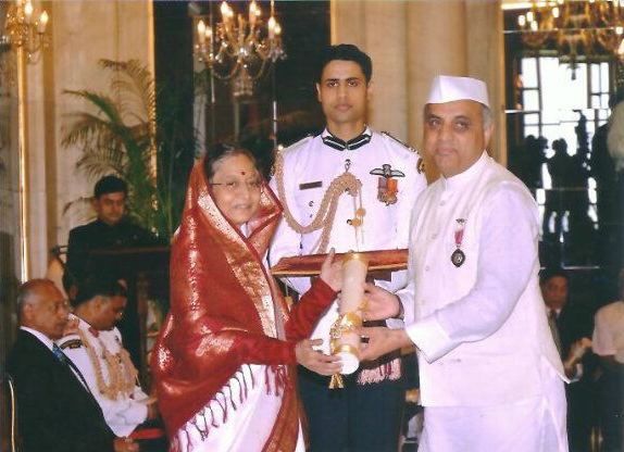 s p varma receiving Padmashree award